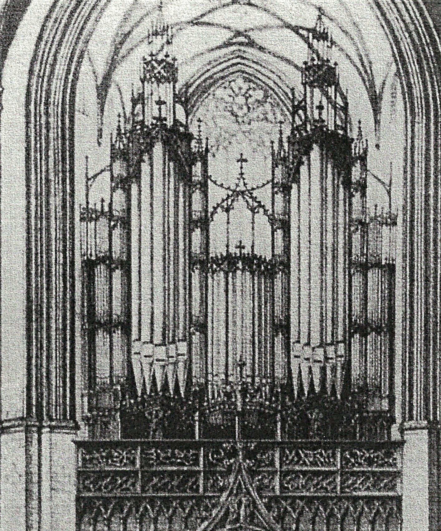 1856 Walcker Organ in Ulm Minster